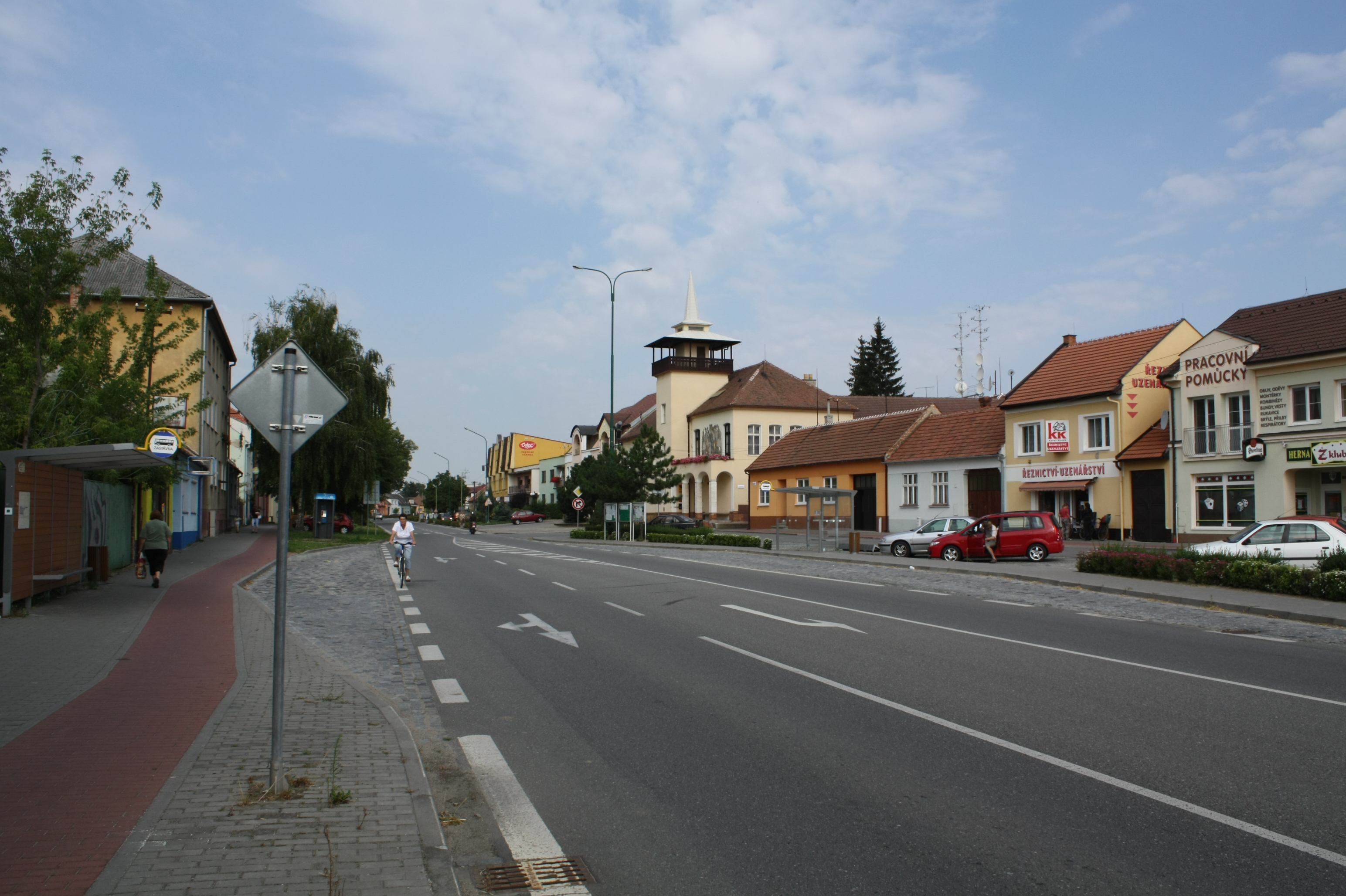 Vracov, Hodonín district, Czech Republic - town square Object location48° 58′ 47.08″ N, 17° 13′ 11.79″ E